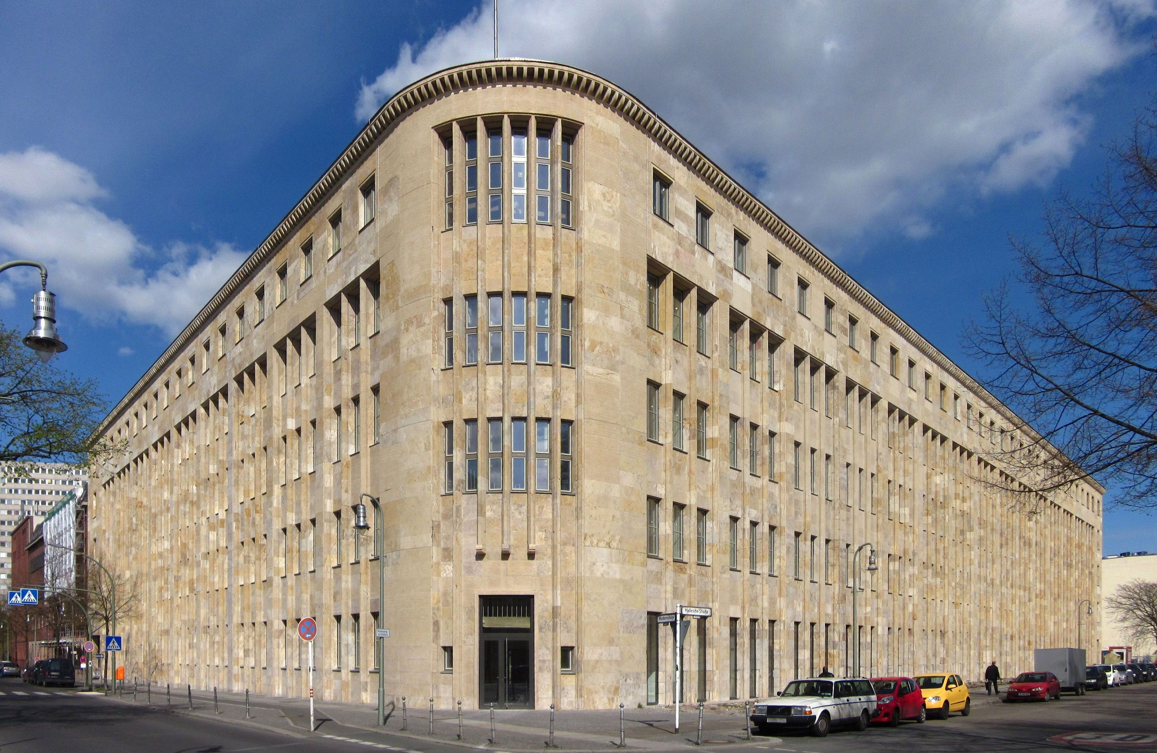 The former Post Office SW at Möckernstraße 135-138, corner of Hallesche Straße (on the right), in Berlin-Kreuzberg. It was built from 1933 to 1937 in two parts to designs by the architekts Kurt Kuhlow and Georg Werner. It has been designated a historic landmark.